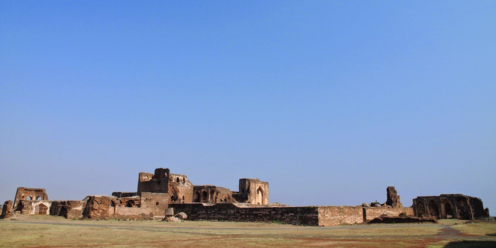 Takht Mahal, Bidar Fort